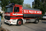 AHBVPA-VTTU 01